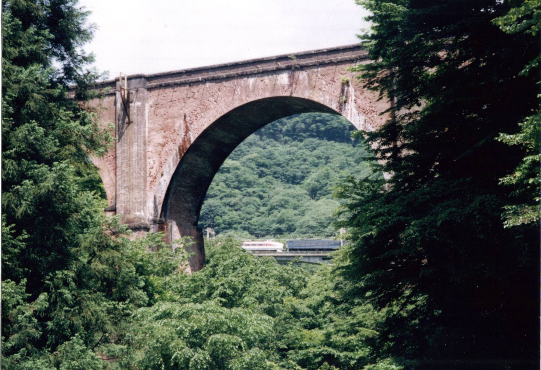 Usui Bridge